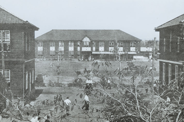 Chiba Institute of Technology old school building. Tudanuma, Chiba campus,1950s